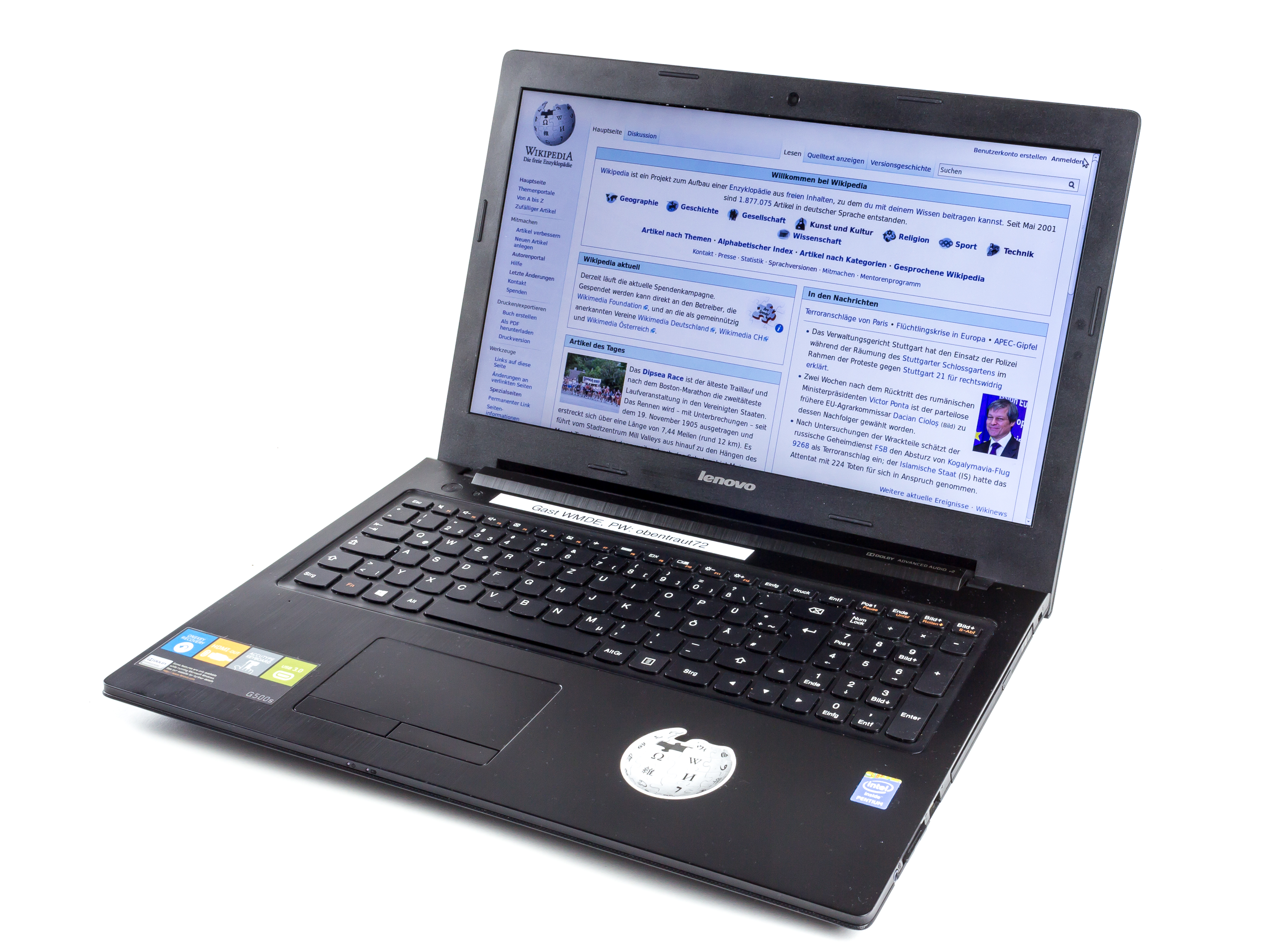 Lenovo G500s laptop with German keyboard layout